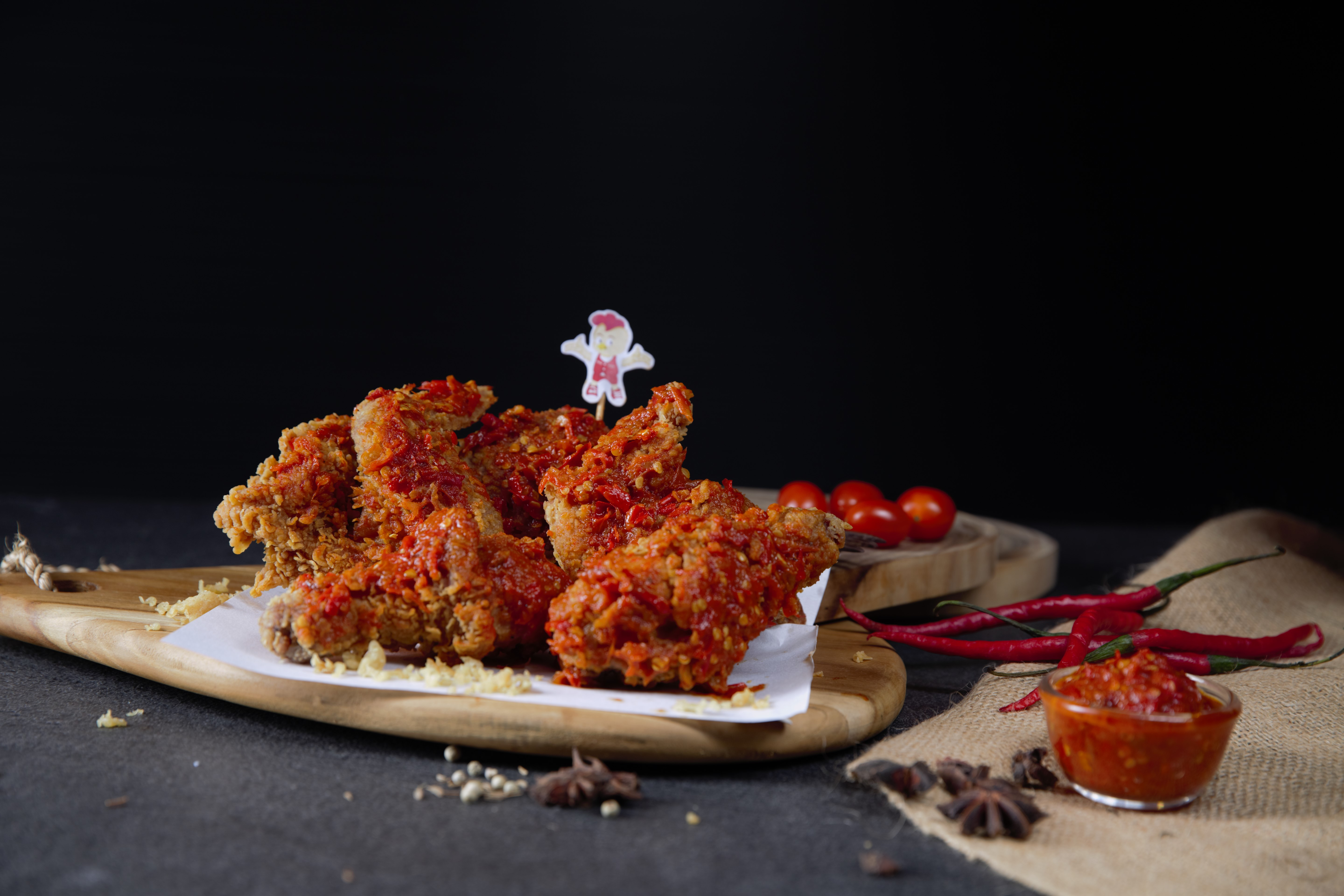 A first picture of Ayam Geprek invented by Quick Chicken and named as American Penyet.